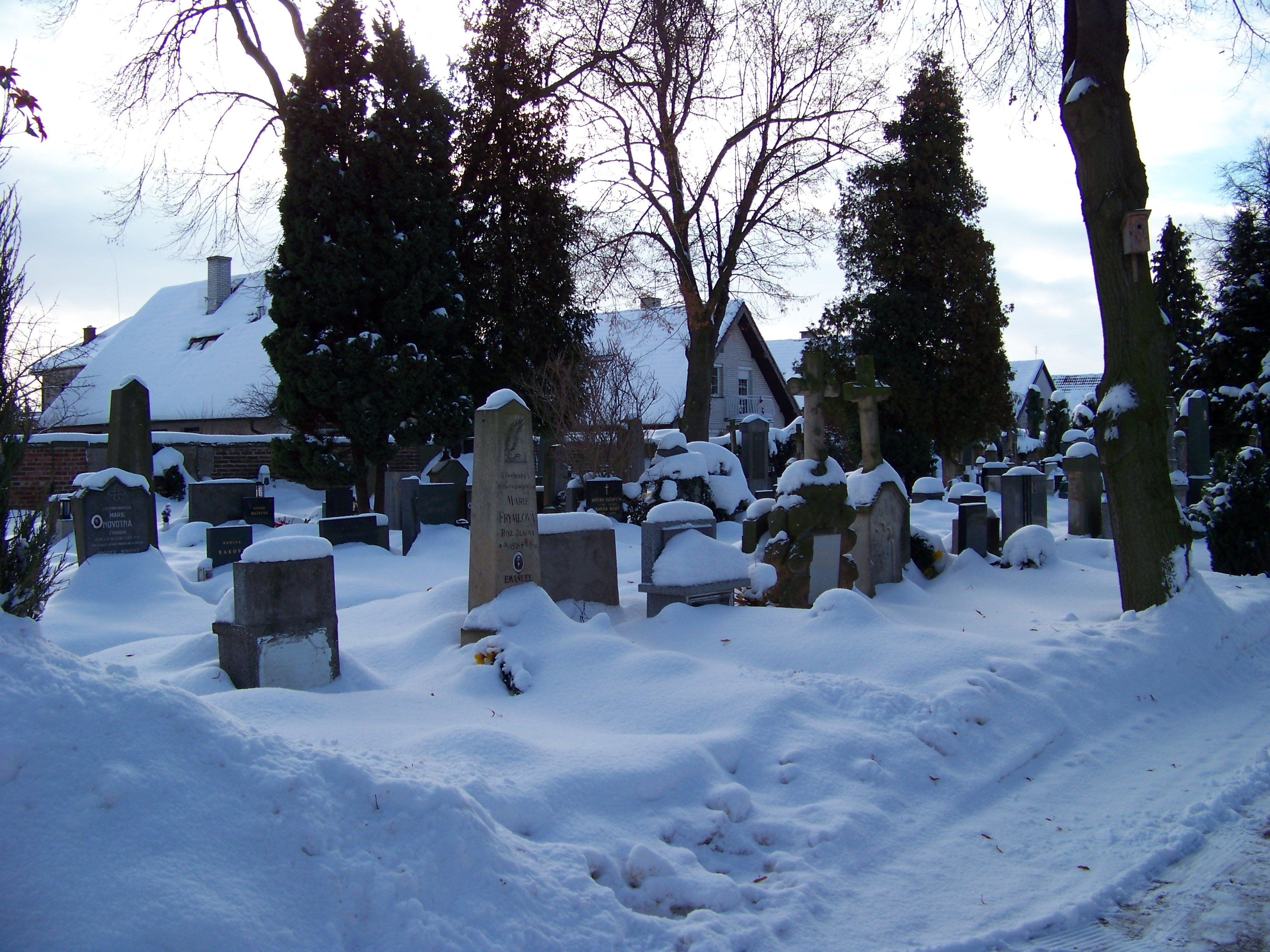 Hradec Králové-Kluky, the Czech Republic. A cemetery near Husova Street.